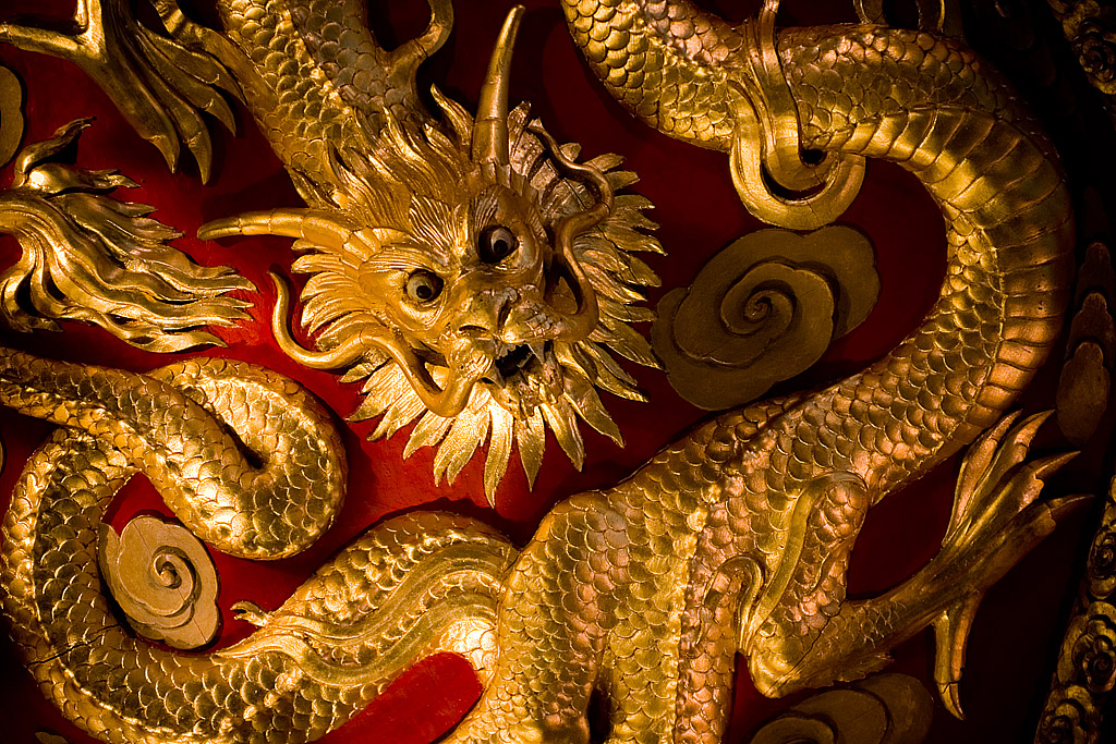 Chinese Nationality Room, Cathedral of Learning, Pittsburgh, PA.